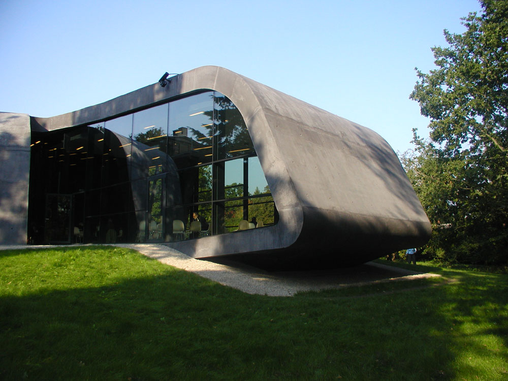 Ordrupgaard Copenhagen Zaha Hadid